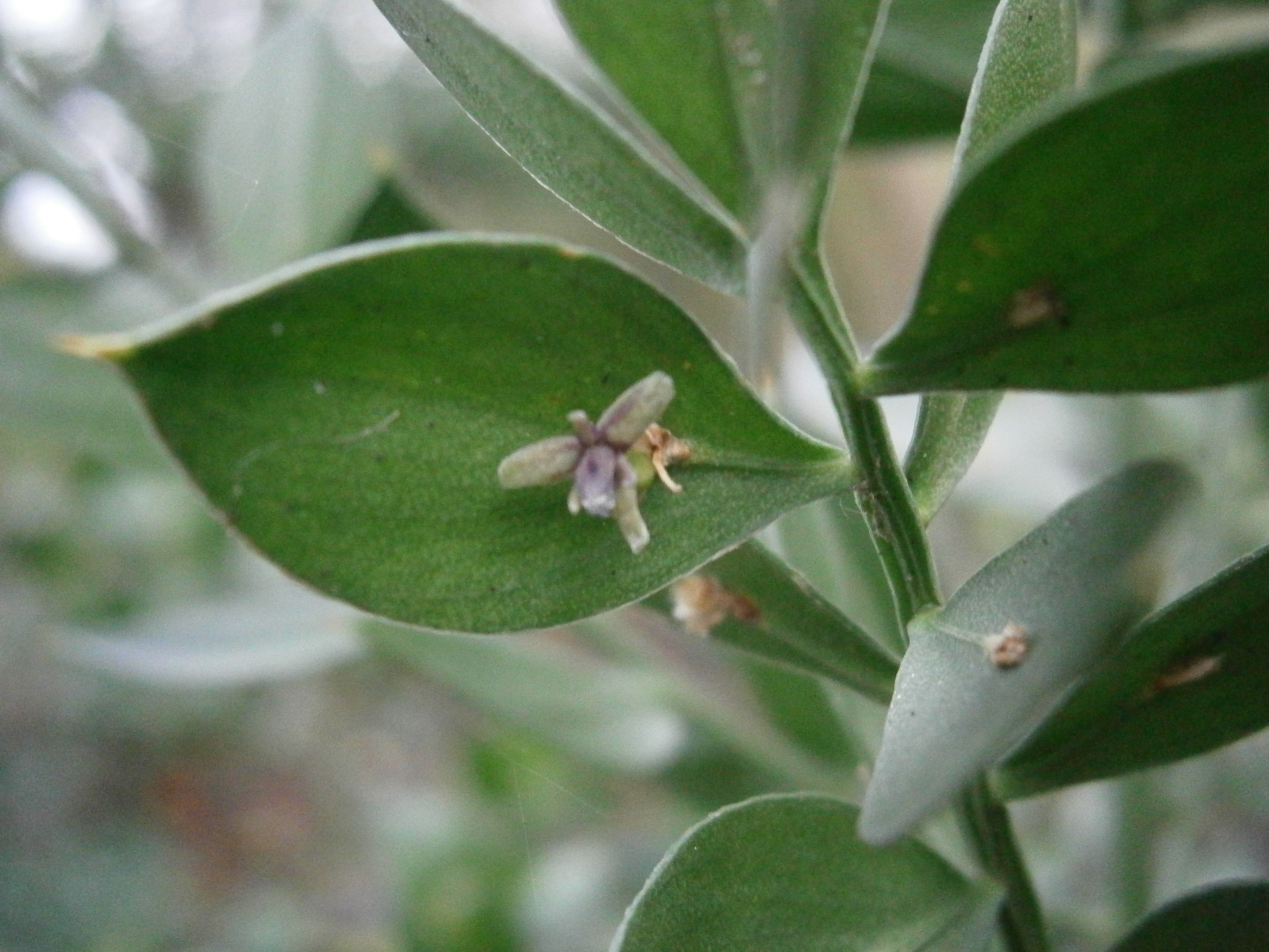 Ruscus aculeatus close-up flower